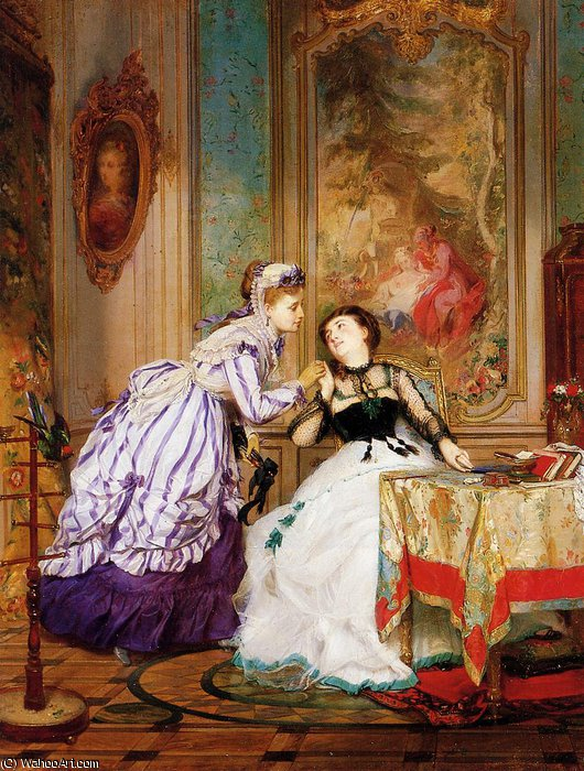 Charles Edward Boutibonne's art